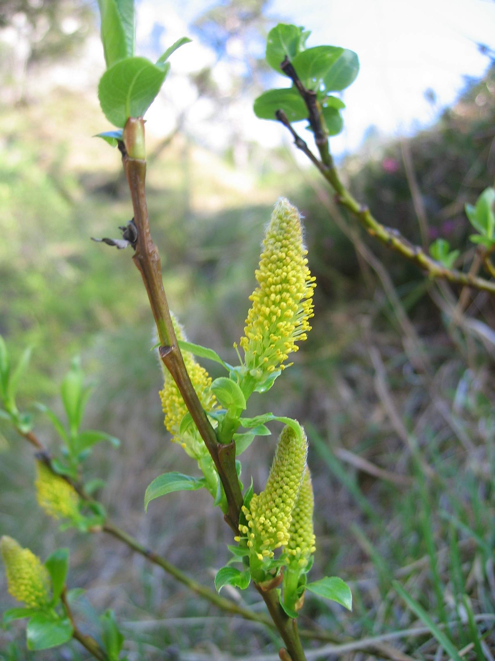 Salix glabra (male flower) Kaltenbachwildnis, Upper Austria, Austria